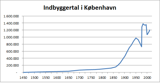 Graph of inhabitants in Copenhagen. 1450-2011